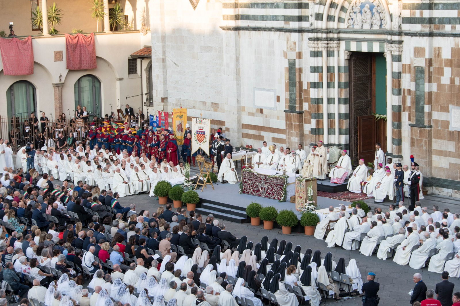 Prato, Italy, Bishop Giovanni Nerbini, Tuscany